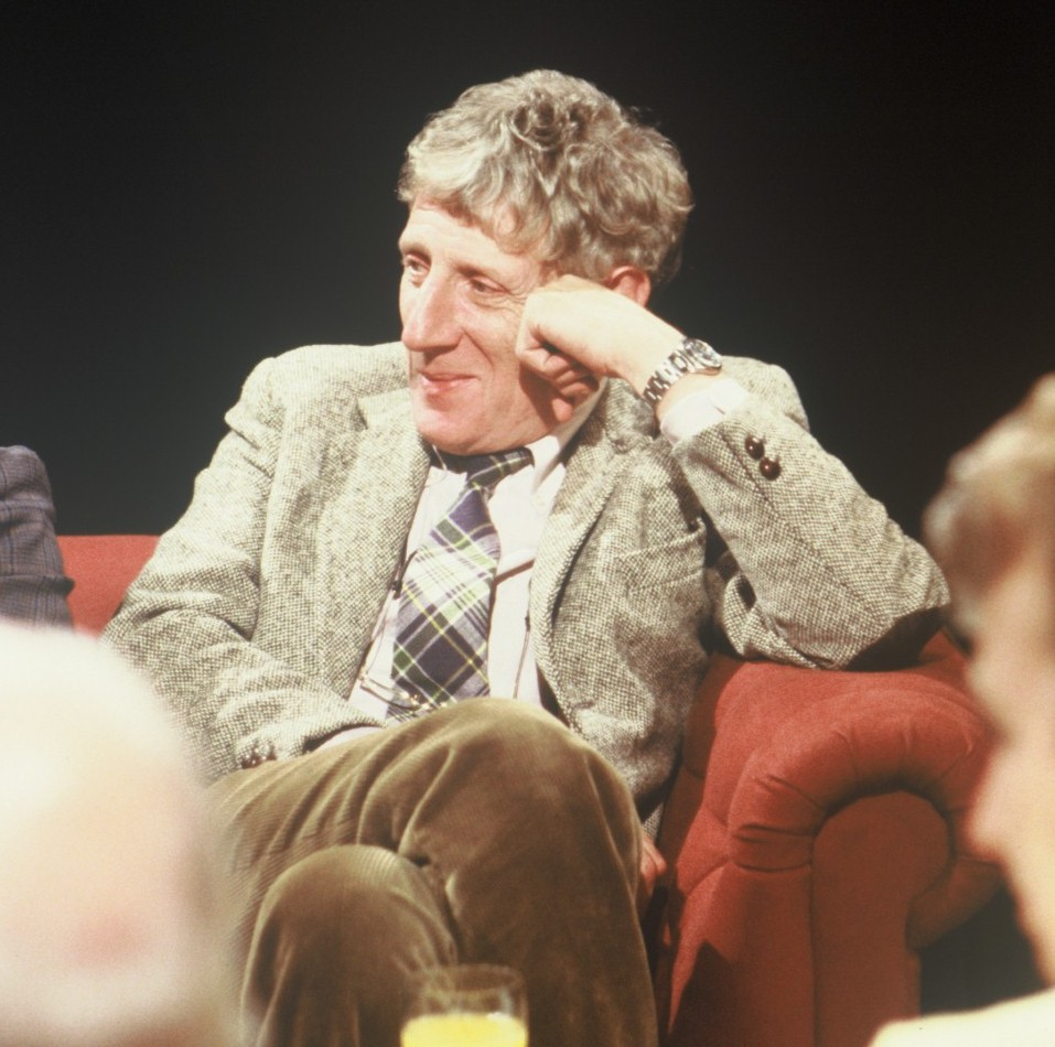 Jonathan Miller appearing on After Dark on 3 September 1988. Other guests included James Randi and Jacques Benveniste. More here.